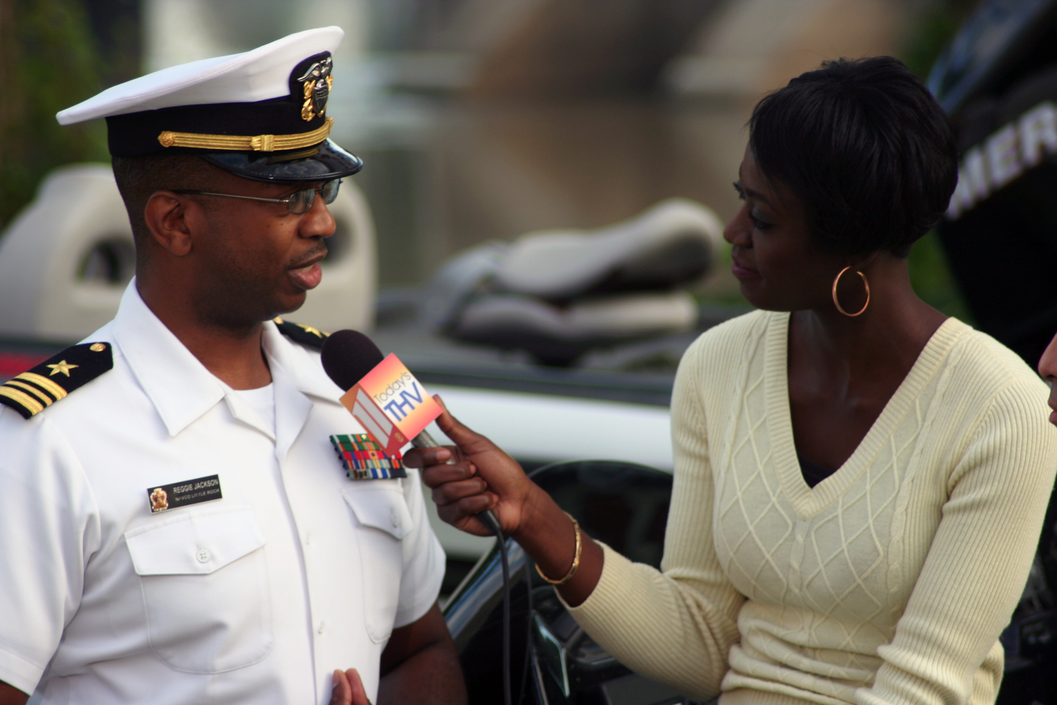 LITTLE ROCK, Ark. (May 30, 2010) Lt. Cmdr. Reginald Jackson, assigned to Navy Office of Community Outreach, is interviewed by Faith Abubey of KTHV-DT during a live television broadcast from RiverFest. Jackson discussed final events of Little Rock Navy Week 2010. Navy Weeks are designed to show Americans the investment they have made in their Navy and increase awareness in cities that do not have a significant Navy presence. (U.S. Navy photo by Chief Mass Communication Specialist Steve Johnson/Released)